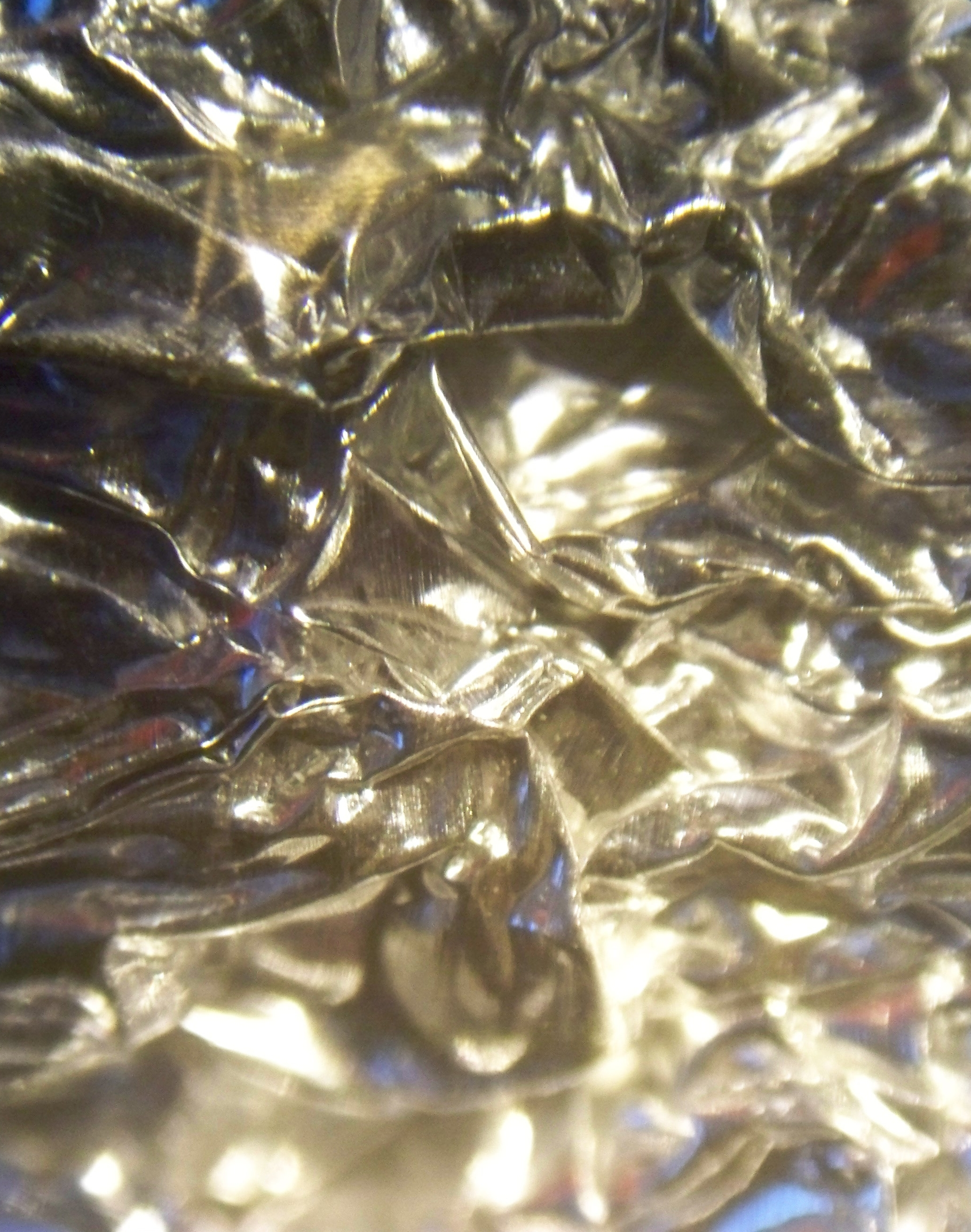 Crushed Aluminium foil under microscope (20x)